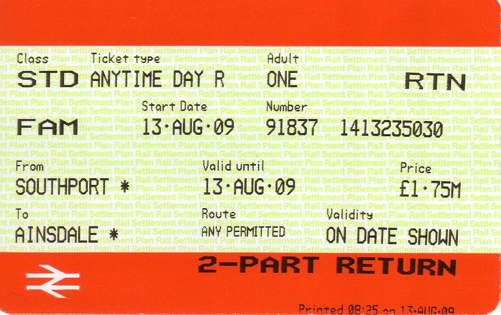 A Railway Ticket for Southport to Ainsdale